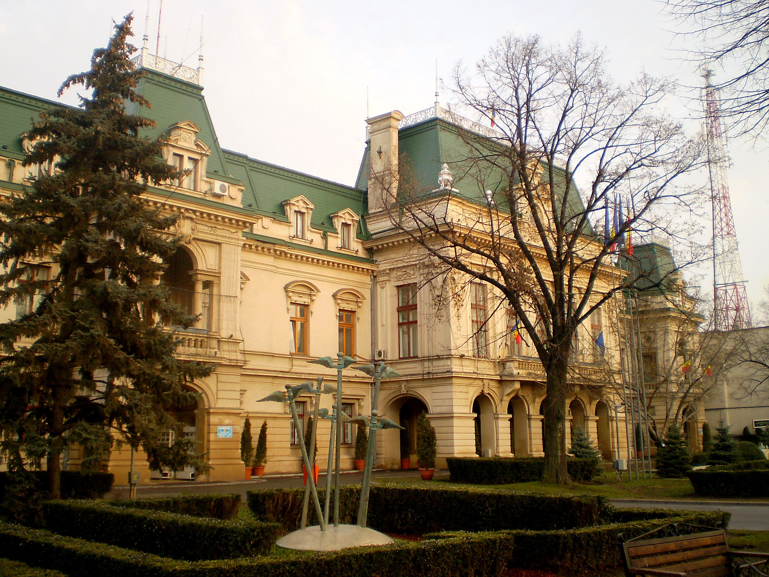 Iaşi , City Hall , ex Roznovanu Palace , Iaşi, Romania